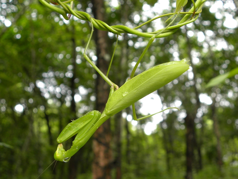 Praying mantis